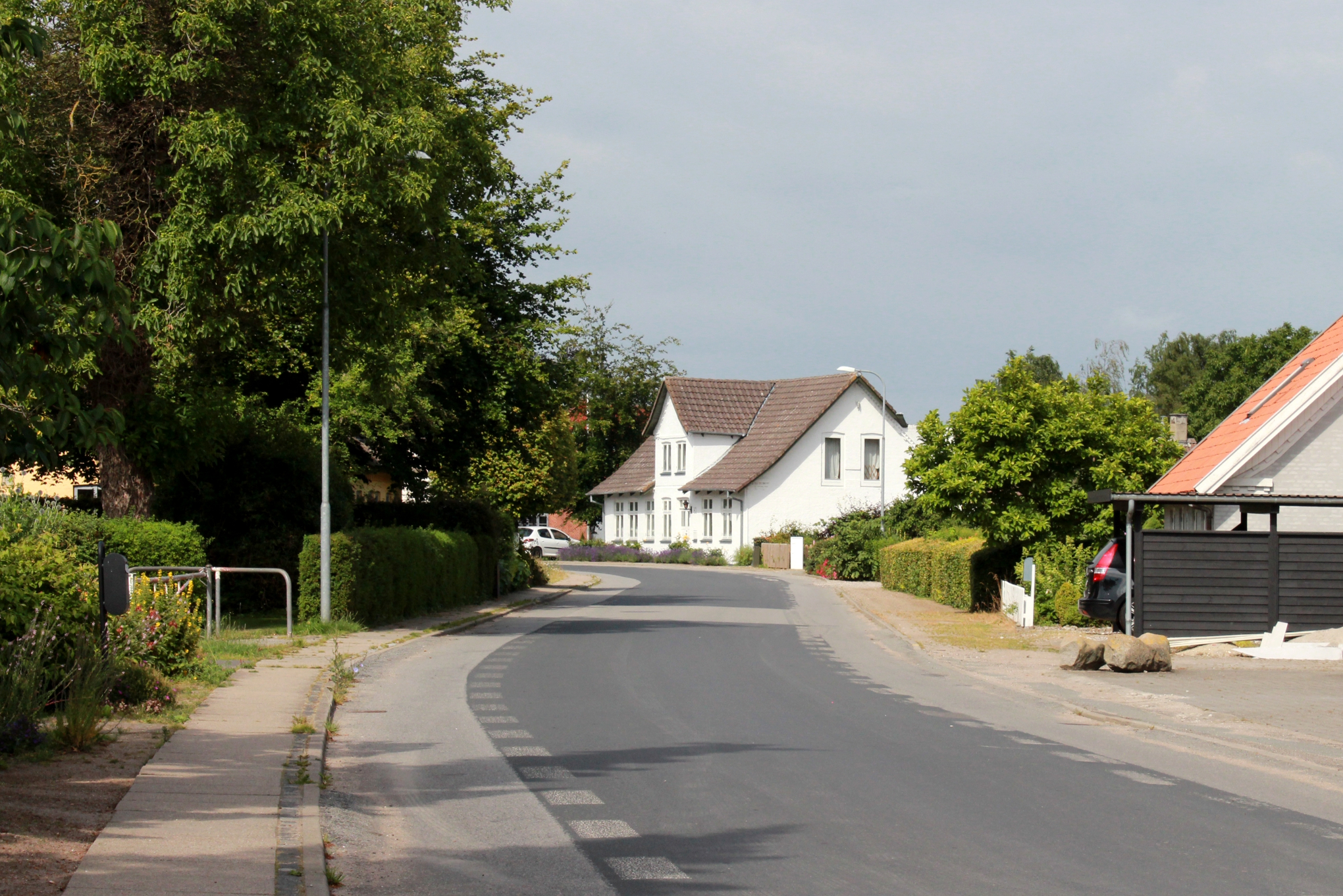 Street view from the village of Birkende, Kertemimde Kommune on Funen, Denmark.